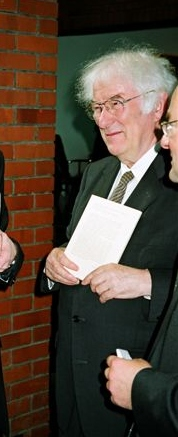 Seamus Heaney (b. 1939), Irish writer (Crop)